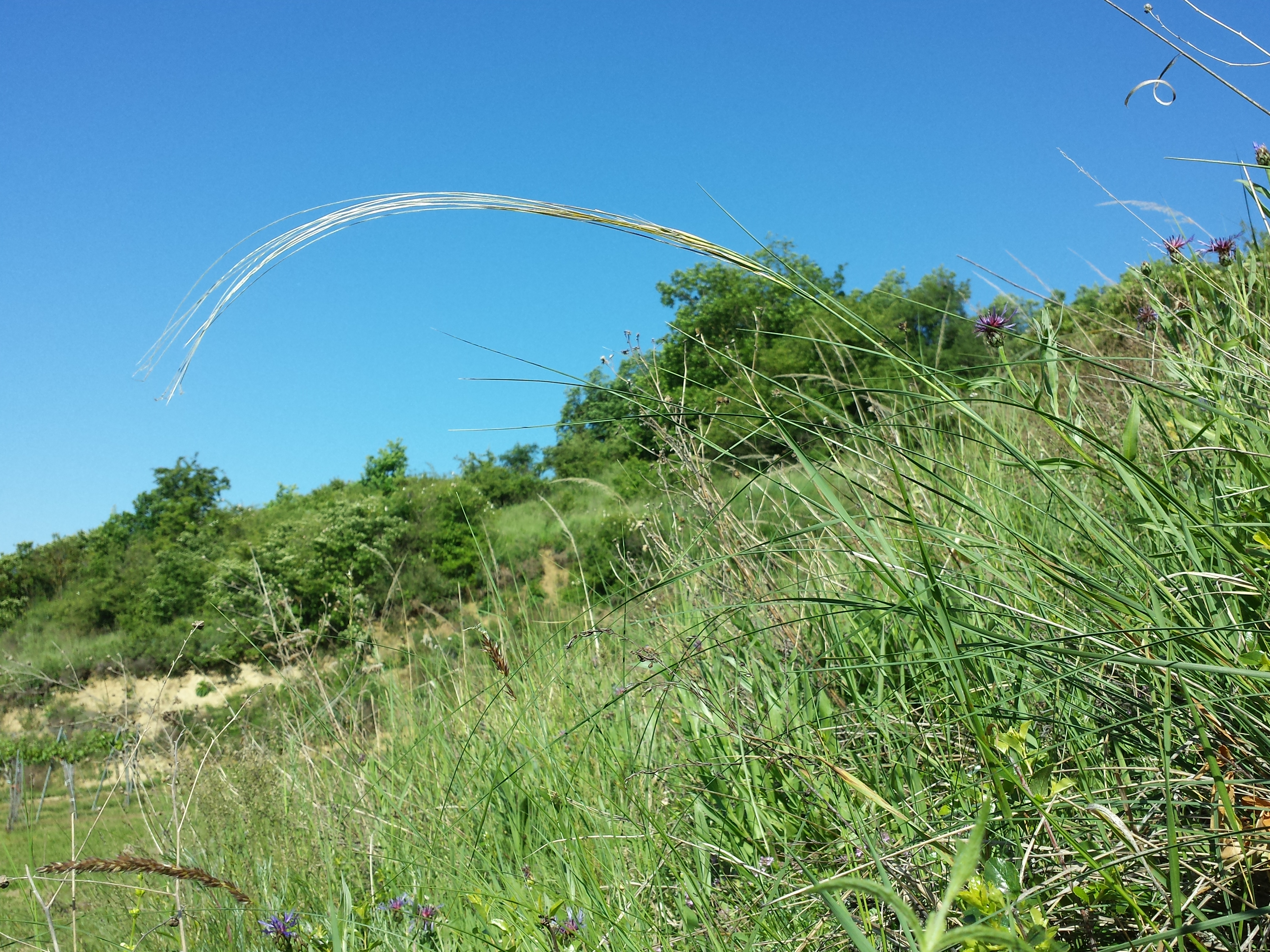 Habitus Taxonym: Stipa pulcherrima (subsp. pulcherrima) ss Fischer et al. EfÖLS 2008 ISBN 978-3-85474-187-9 Location: semi-dry grasslands and wine yards to the north of Oberthern, municipality Heldenberg, district Hollabrunn, Lower Austria - ca. 300 m ü. A. Habitat: slope